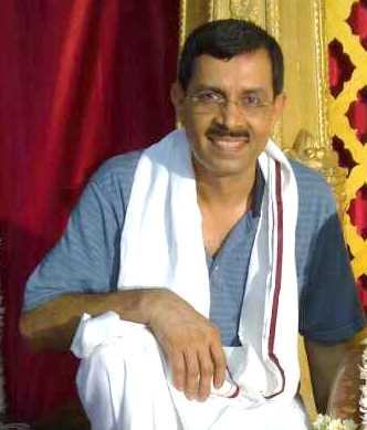 Prakash Kumar Pallathadka at a family function at Udupi, Karnataka, India in May 2013.